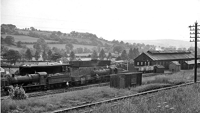 Brecon Engine Shed. View SW, towards (on right) Brecon station and Neath; shared between ex-Brecon & Merthyr, ex-Cambrian and ex-Neath & Brecon lines (all later Great Western), also with ex-Midland (Hereford, Hay & Brecon section) line. Coded 89B under BR, its allocation was only 11 GW locomotives in 1950, consisting of 0-6-0s and 0-6-0Ts that worked the cross-country lines through the mountains; ex-Midland and ex-Lancashire & Yorkshire 0-6-0s worked in from Hereford. In the final years, LMS-type Ivatt 2MT 2-6-0s were allocated and worked alongside GW 22XX 0-6-0s; one of each is seen in this 1962 photograph. The Shed was closed when all the services were withdrawn from Brecon on 31/12/62.